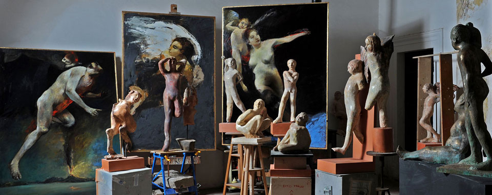 Sculptures and paintings by Kokocinski